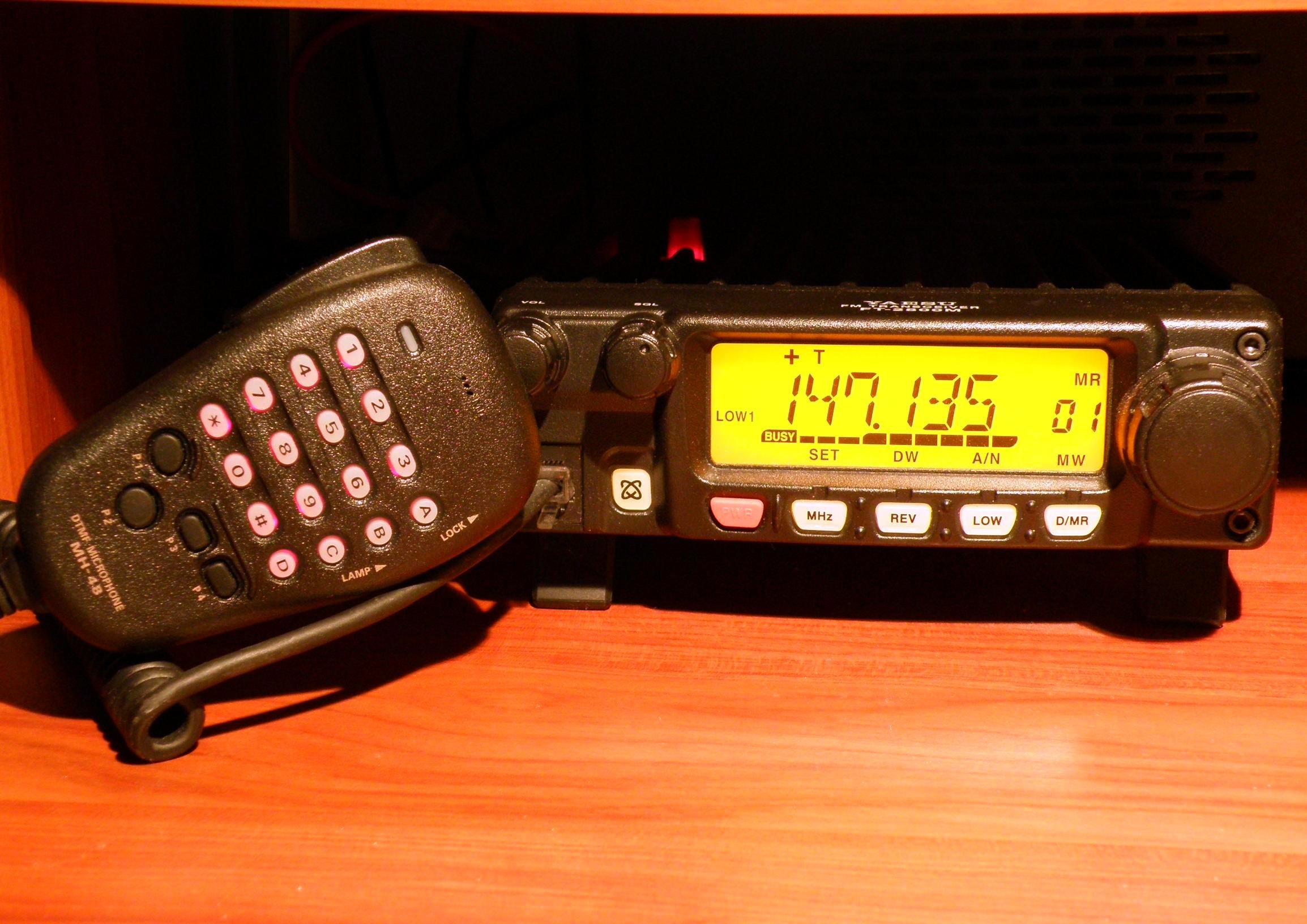 Yaesu FT-2800M Description: Yaesu 2m Transceiver. 65 Watt Output,- 4 power levels, 2m Transmit, 134-174 Receive, 219 Memories w/ 6 char AlphaNumeric display, NOAA Weather, CTCSS & DTS encode/decode, rugged case.